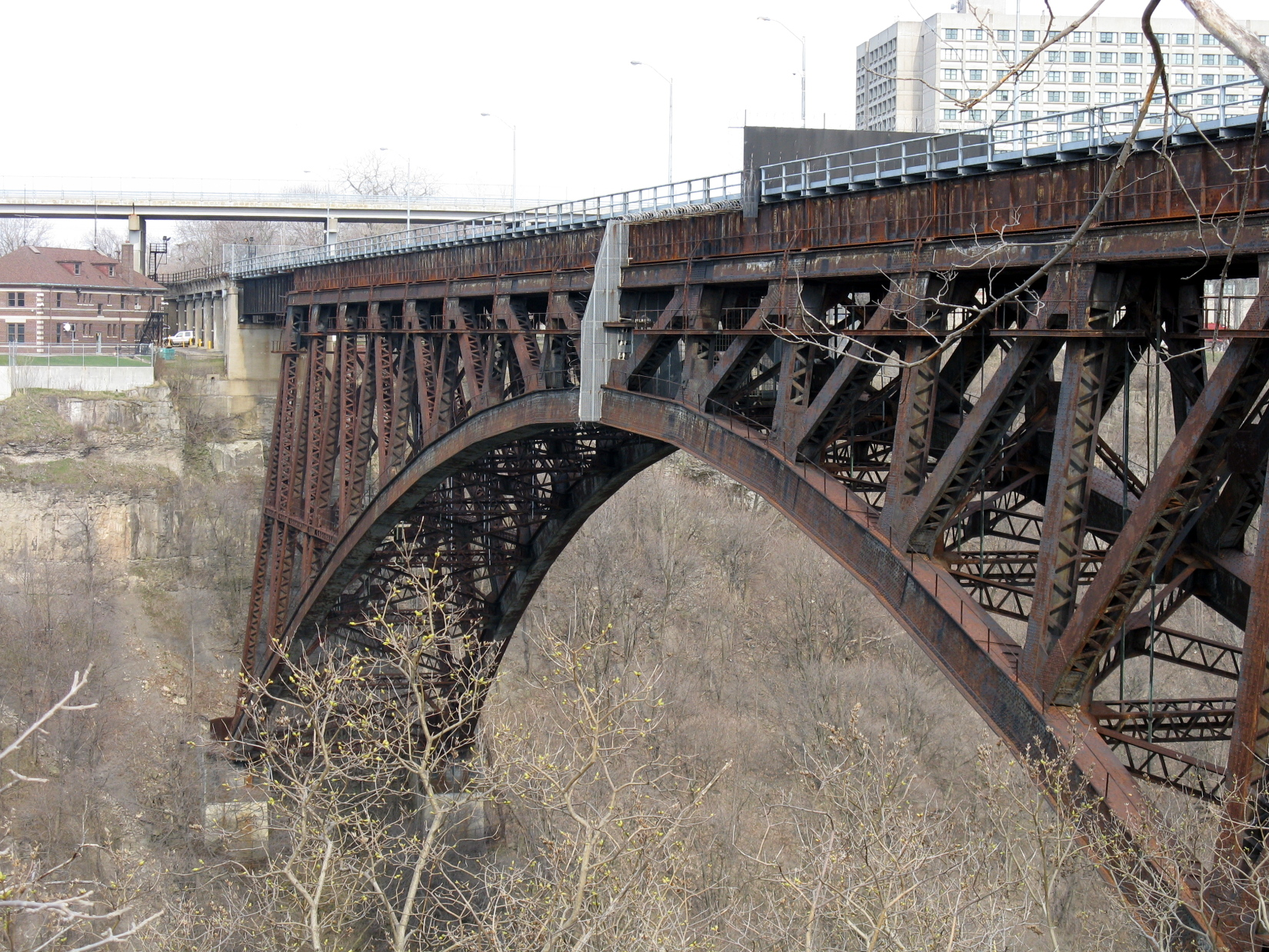 Michigan Central Railway Bridge over Niagara River, photo taken from Canadian side. The bridge is no longer in use and the tracks leading to it have been dismantled. Barriers have been installed to prevent illegal crossings.